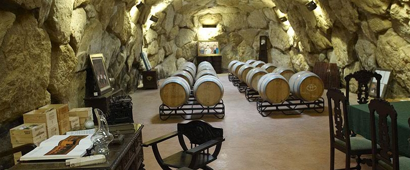 Pic of the caves at the Eguren Ugarte winery in Spain